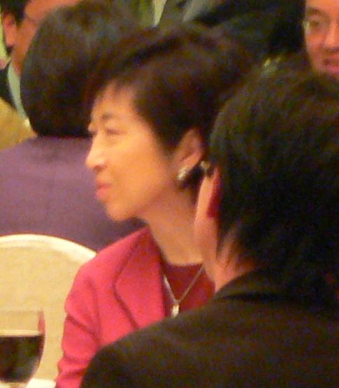 Fanny Law. She was attending a wedding feast of a member in Independant Committee Against Corruption (ICAC).